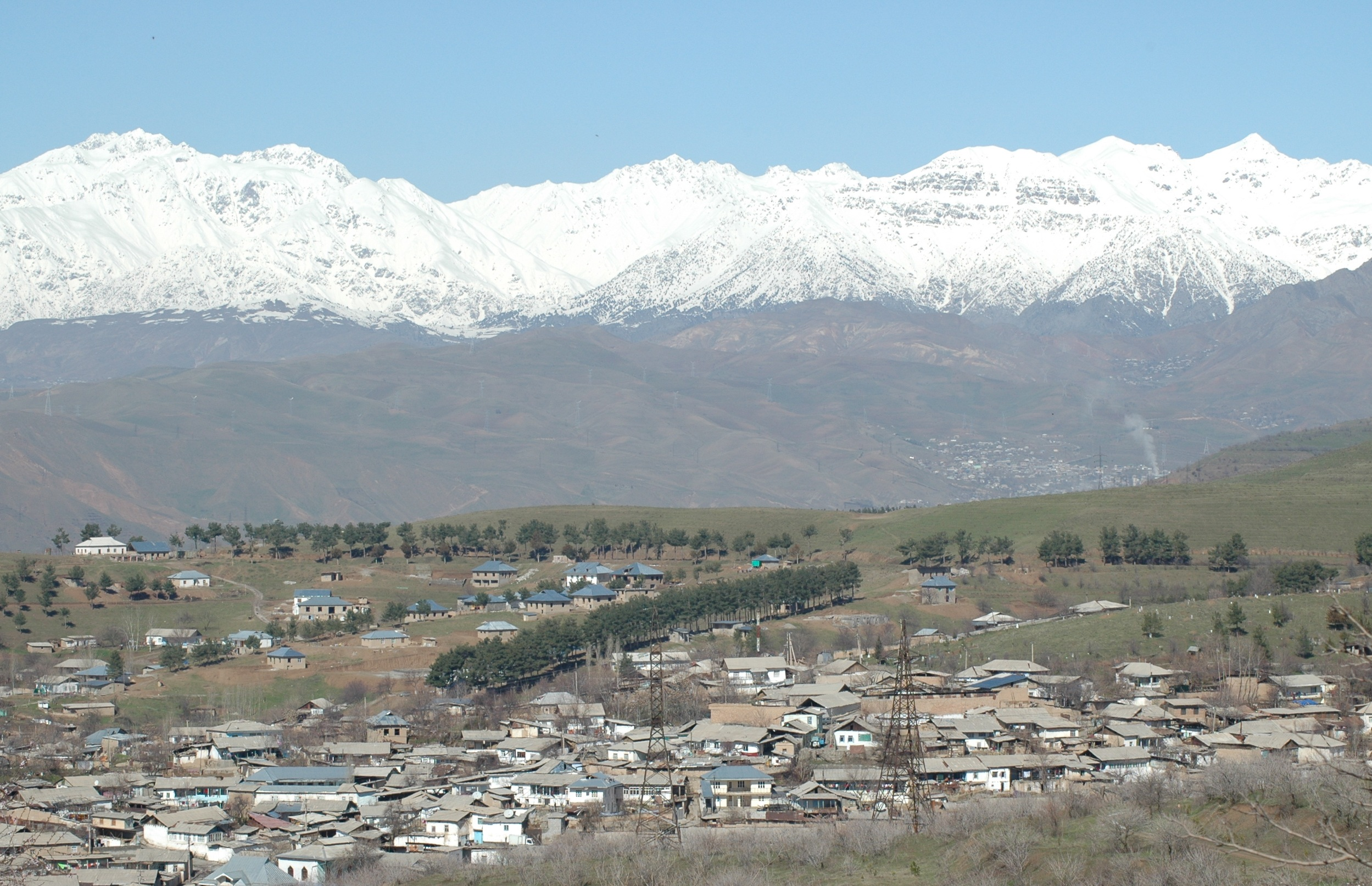 Panoramic view of Dushanbe